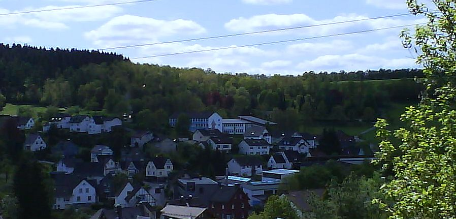 Birlenbach / Siegen/ Germany